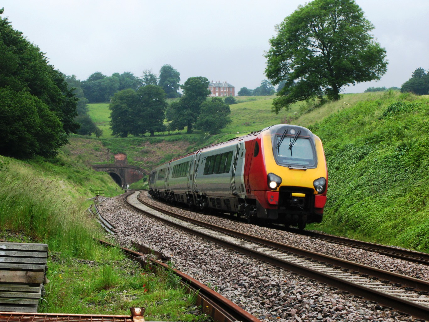 A northbound CrossCountry train formed by 221115 leaves Whiteball Tunnel to start its descent of Wellington Bank in Somerset, England.